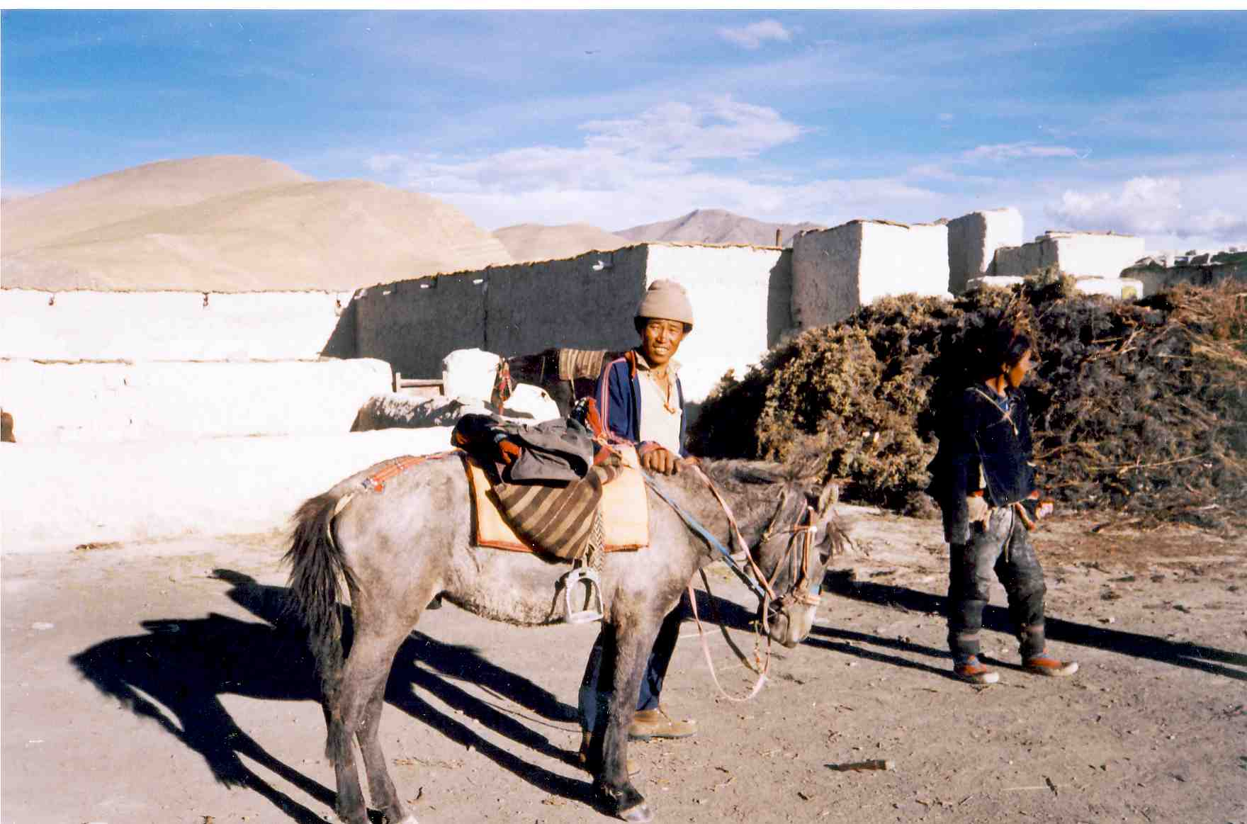 this is my town of tingri which is situated in west of Tibet. [1]